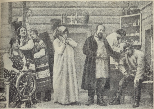 This is a film still from the lost 1909 Russian film The Power of Darkness